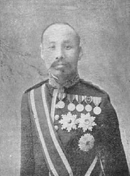 Lee Geun-taek Portrait